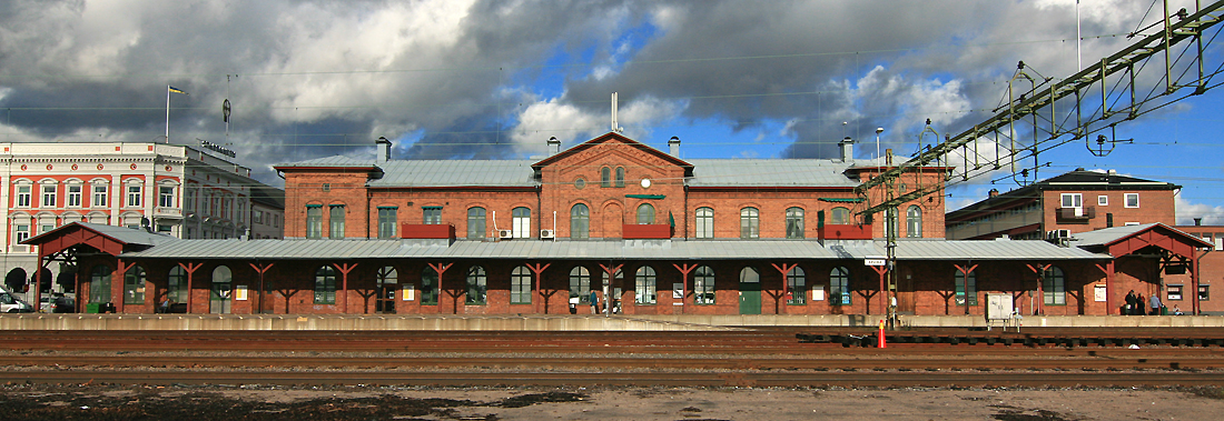 Arvika train station, Sweden.